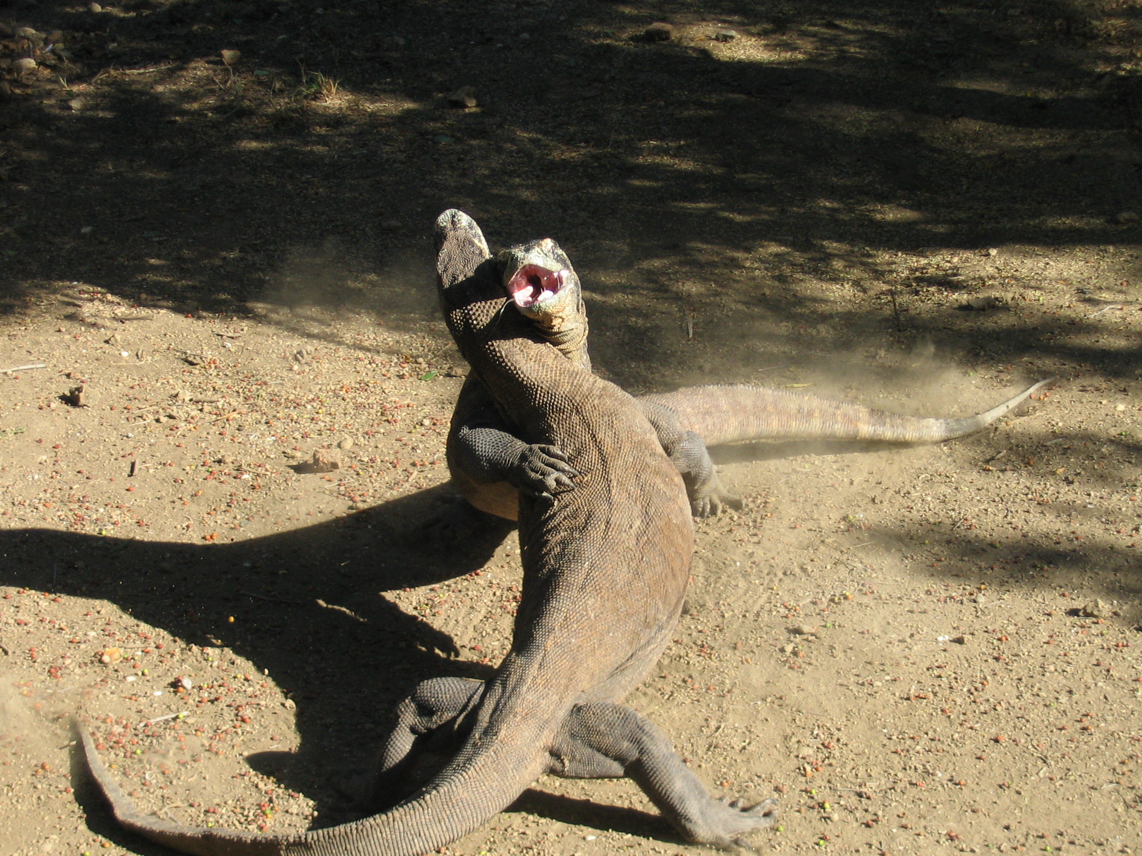 Male Komodo are wresting due to a mating season, the winner can mate the female one.